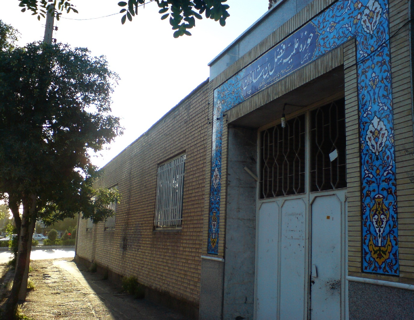 The central entrance of the Fazl Madrassa in Nishapur.